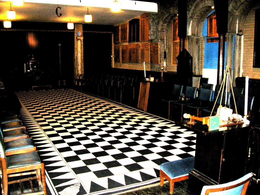 The Temple at the Cloisters Masonic Centre in Letchworth Garden City.